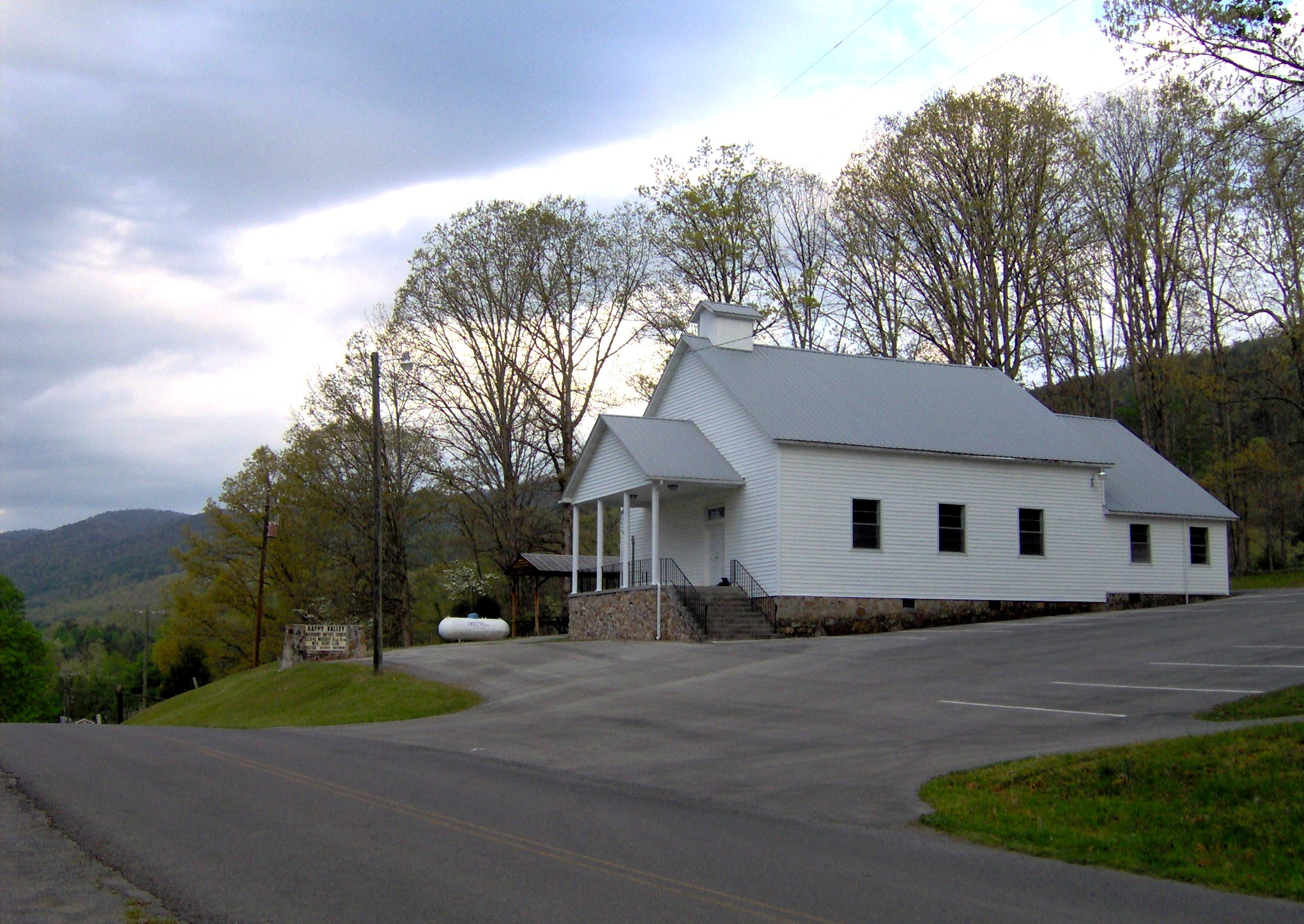 The Happy Valley Missionary Baptist Church in Happy Valley, Tennessee, in the southeastern United States.